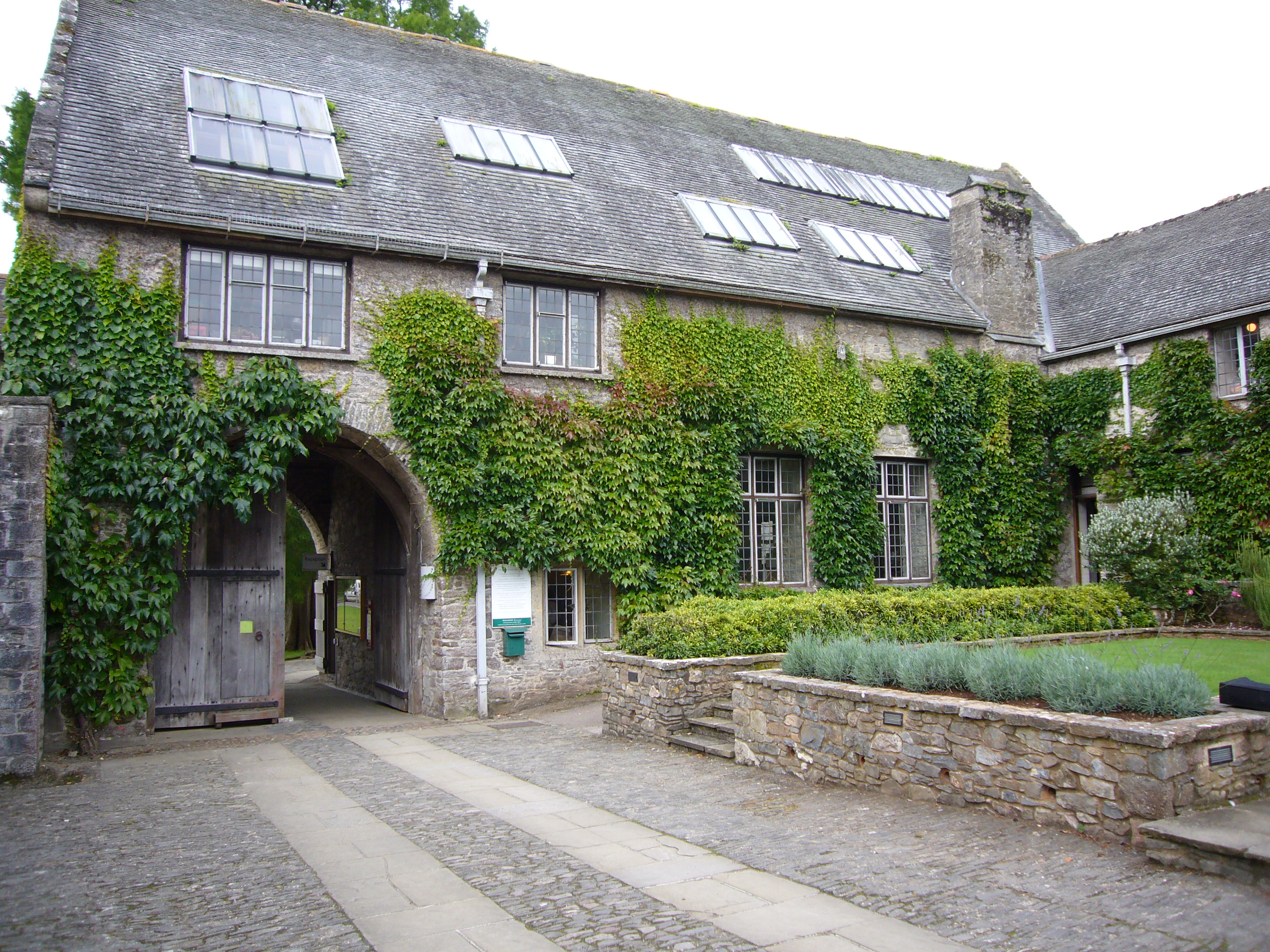 Main entrance to Dartington Hall (Devon)